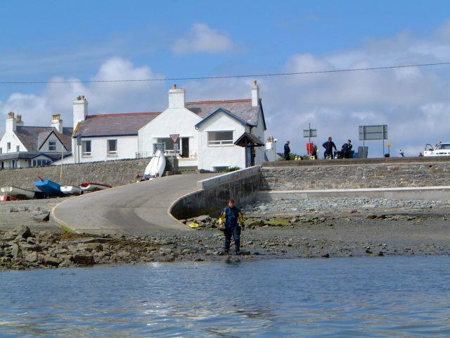 Slipway at Trearddur. Looking up at the slipway.